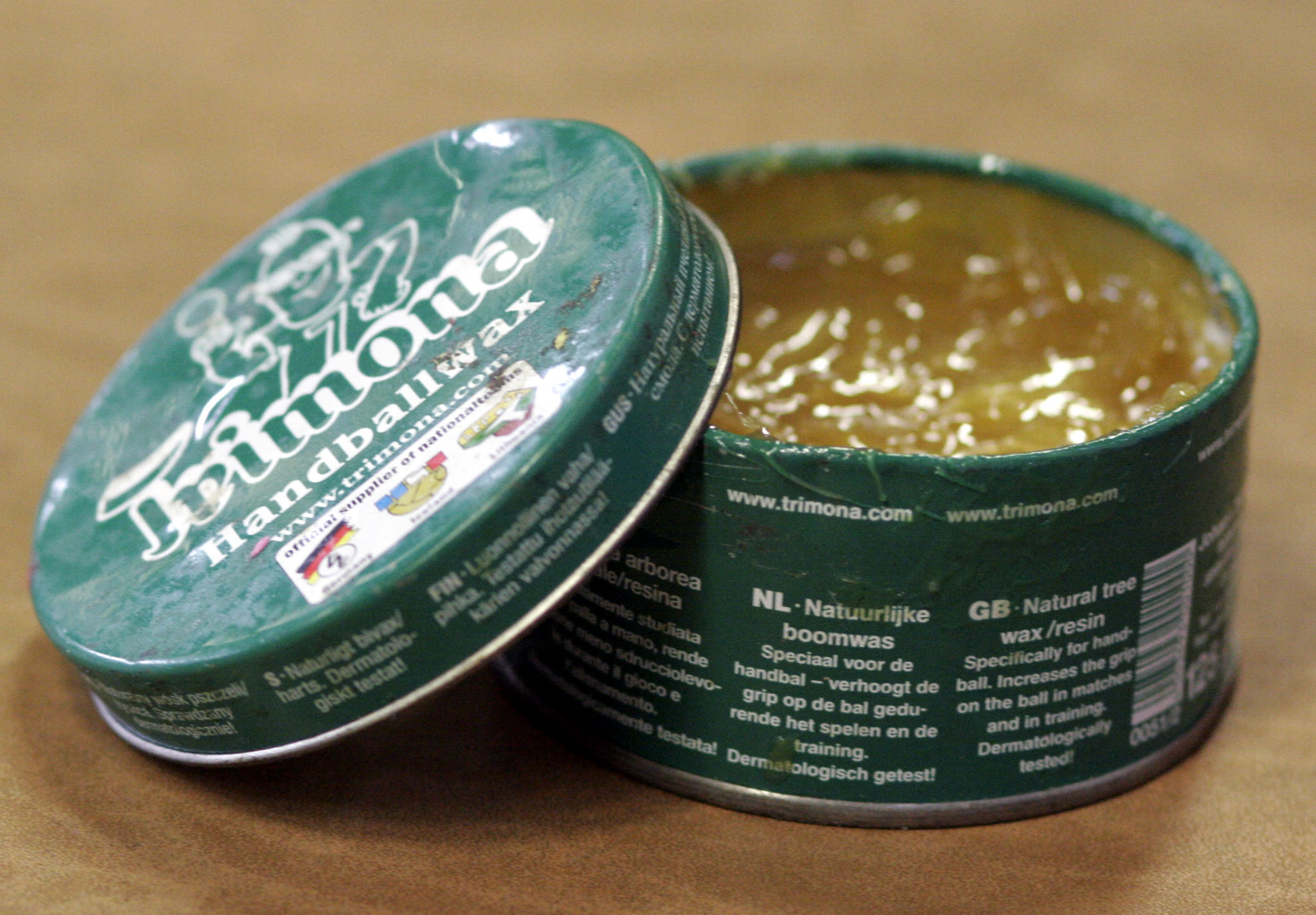 Handballwax to be used by handball players to get a better grip with the fingers